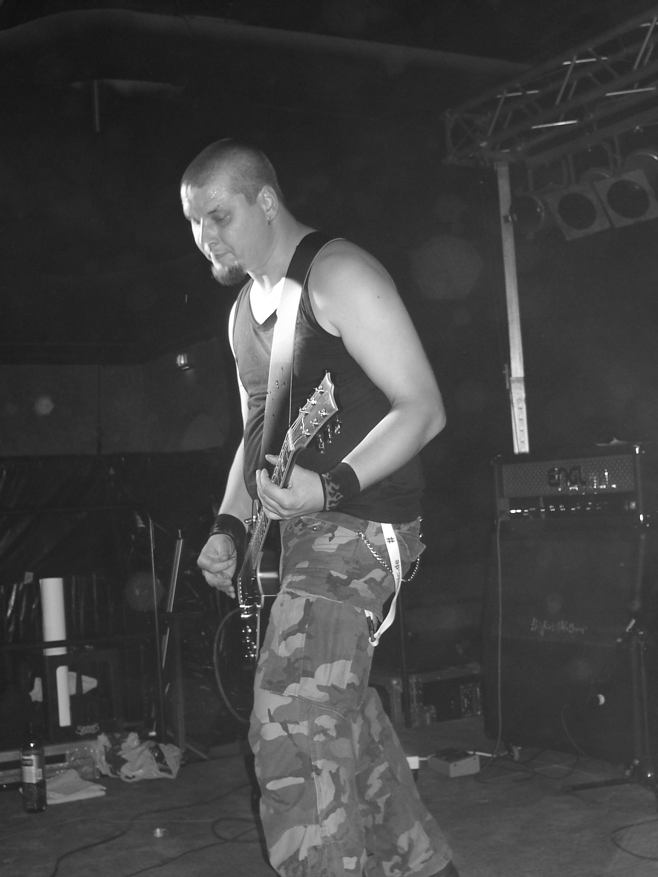 Finnish melodic death metal musical group Immortal Souls' rhythm guitarist Pete Loisa at Metalfest 07, Bad Hersfeld, Germany.